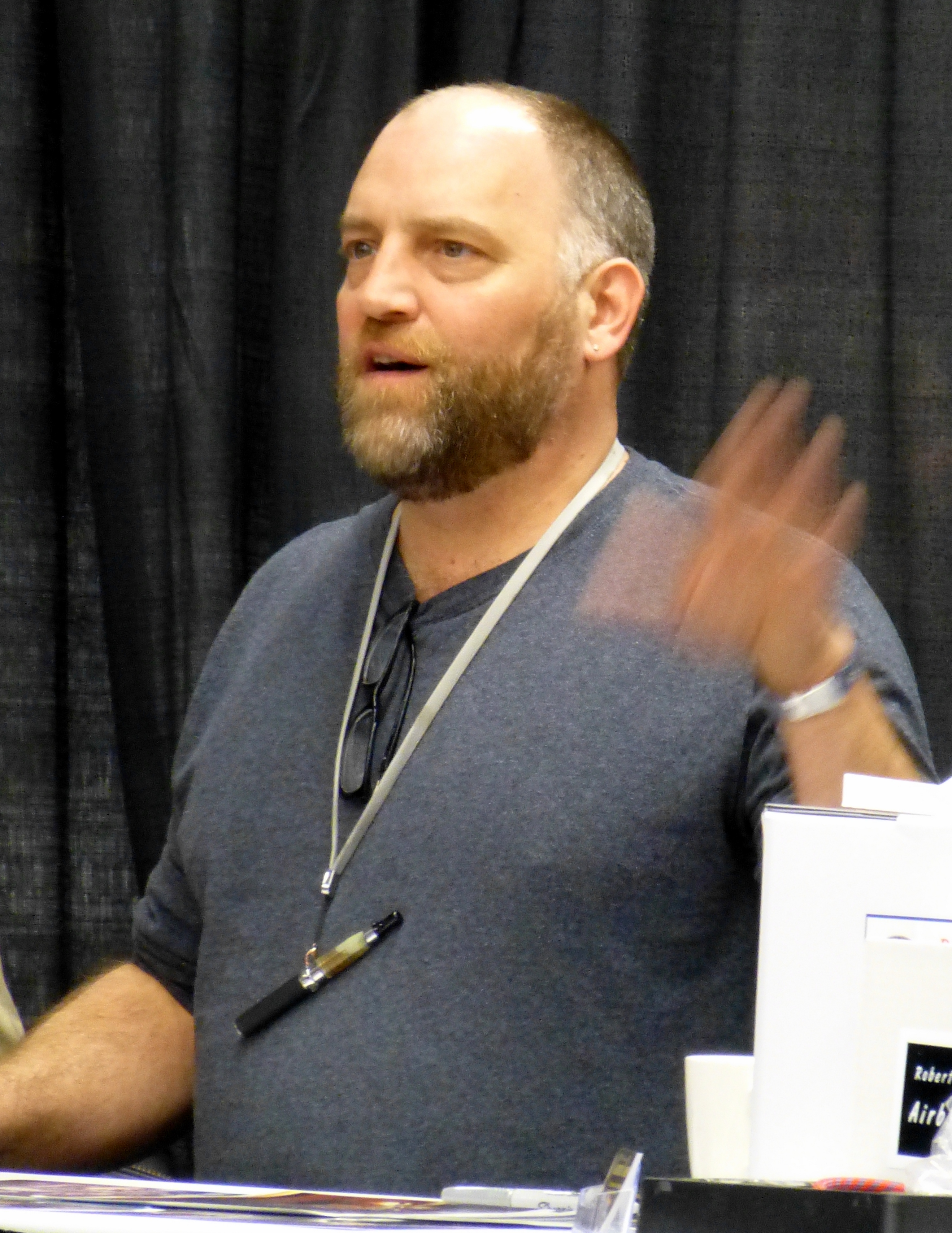 Robert Kurtzman in 2015